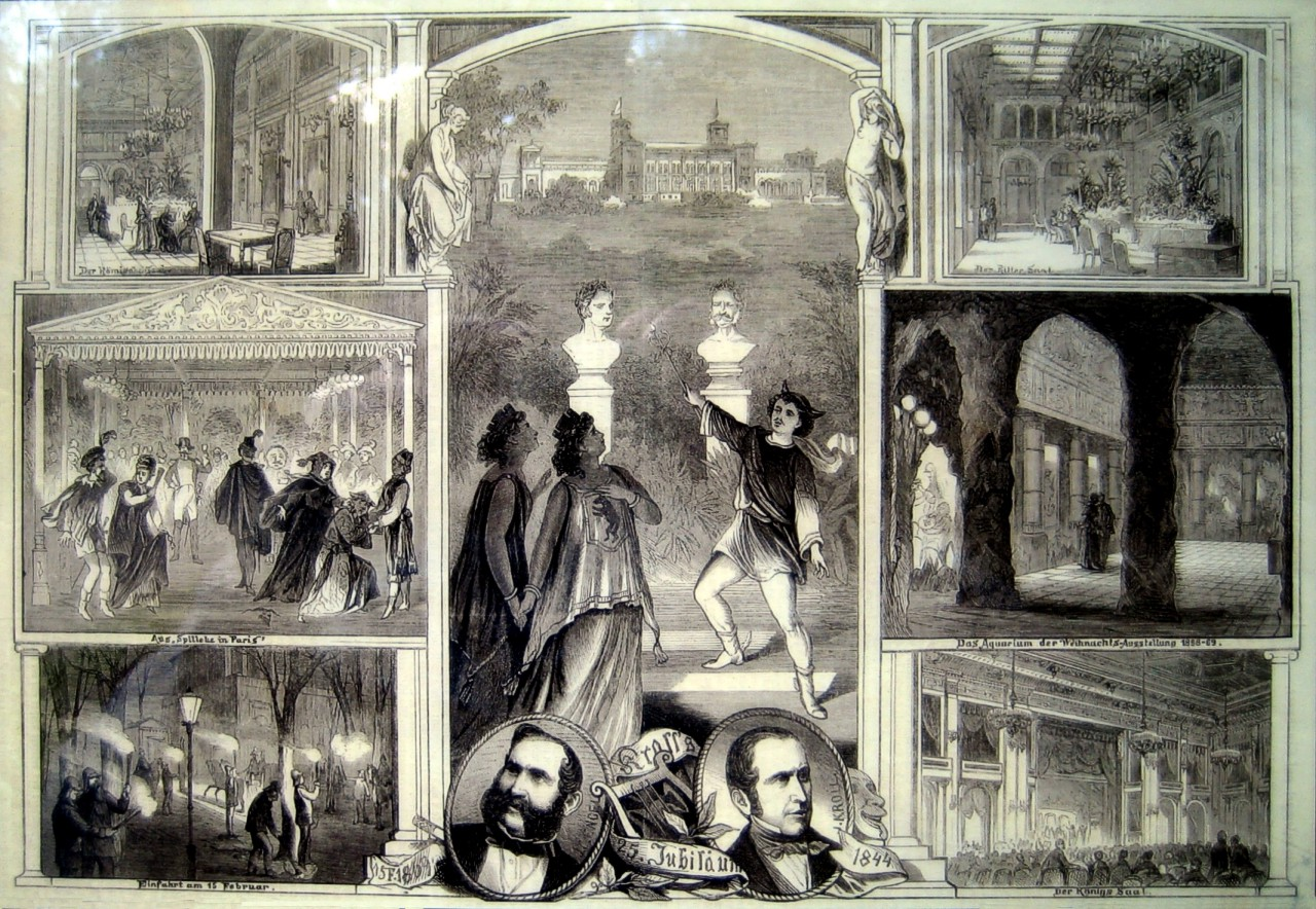 Poster for the so called "Krolloper", a historic amusement-center and theatre in Berlin.